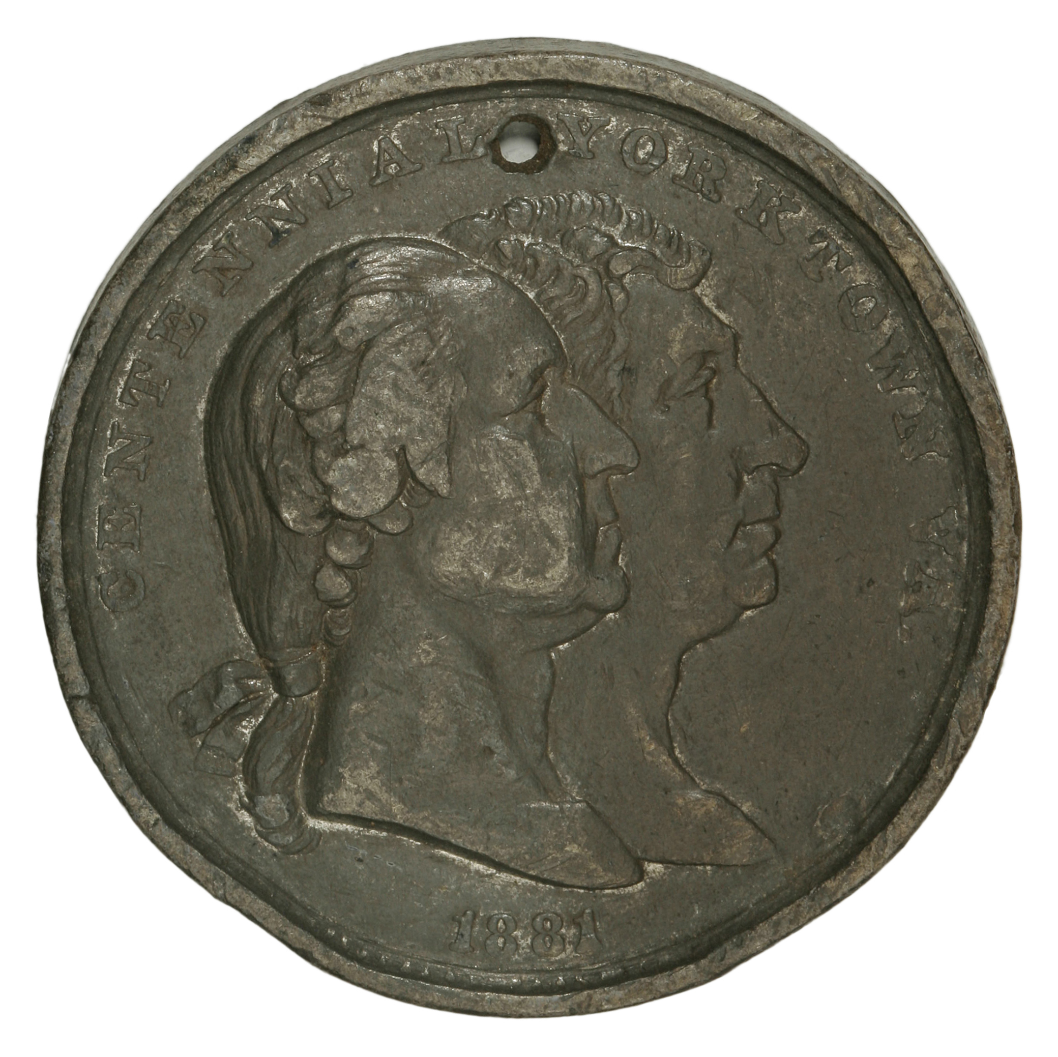 Surrender At Yorktown Centennial (obv) (462-81014)